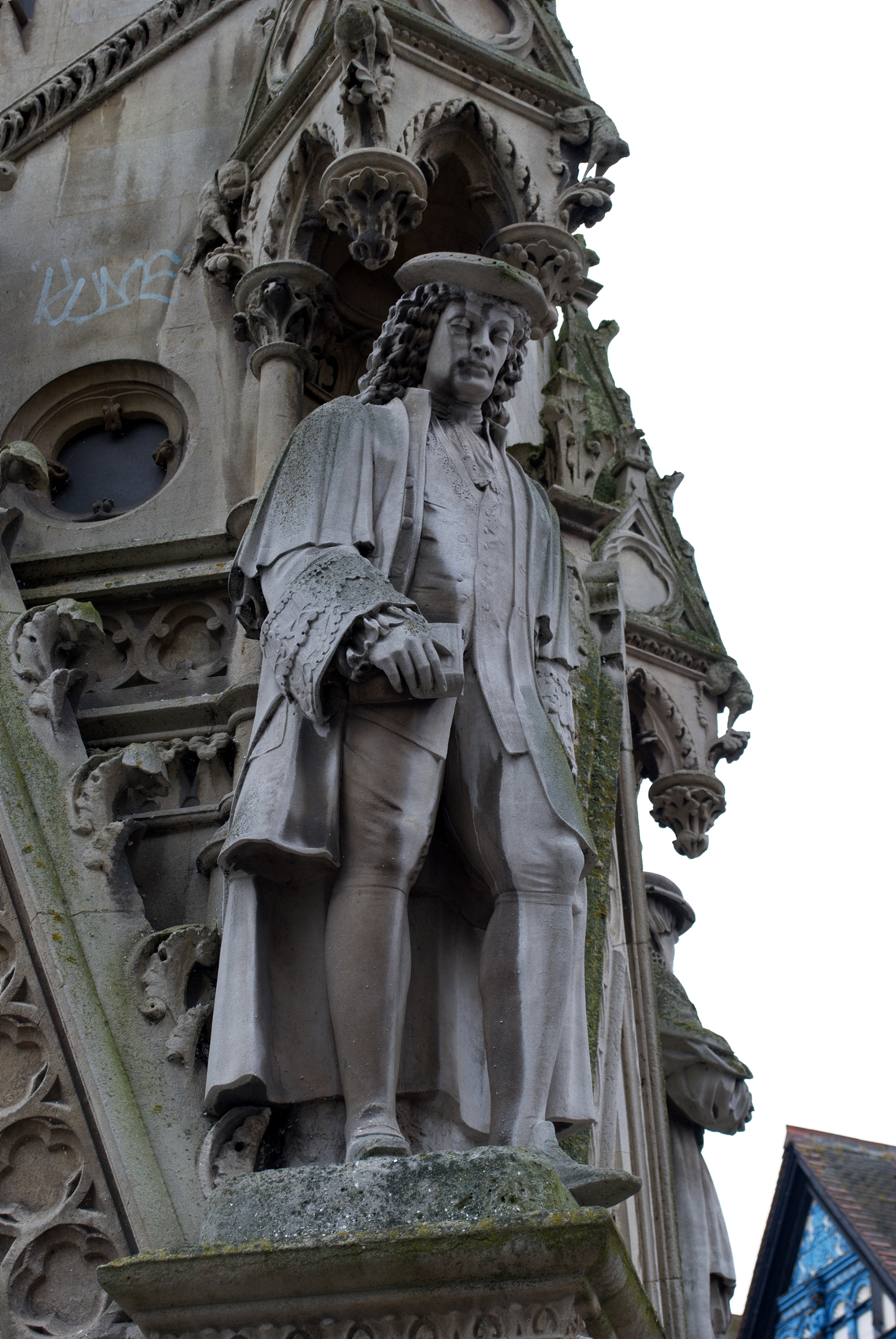 A statue of Gabriel Newton on the Haymarket Memorial Clock Tower in Leicester, England.